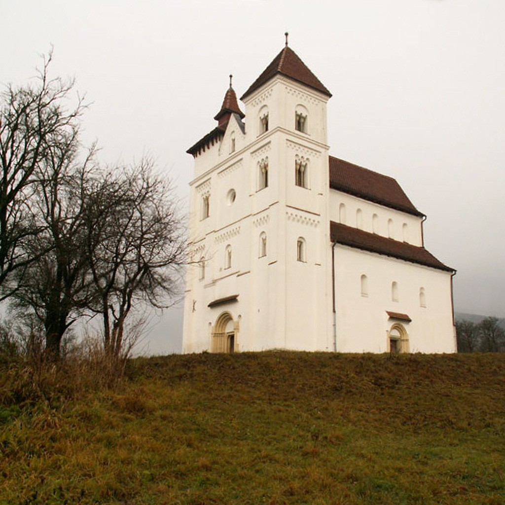 Lutheran Church in Herina (Harina, Münzdorf), Bistriţa-Năsăud county, Romania